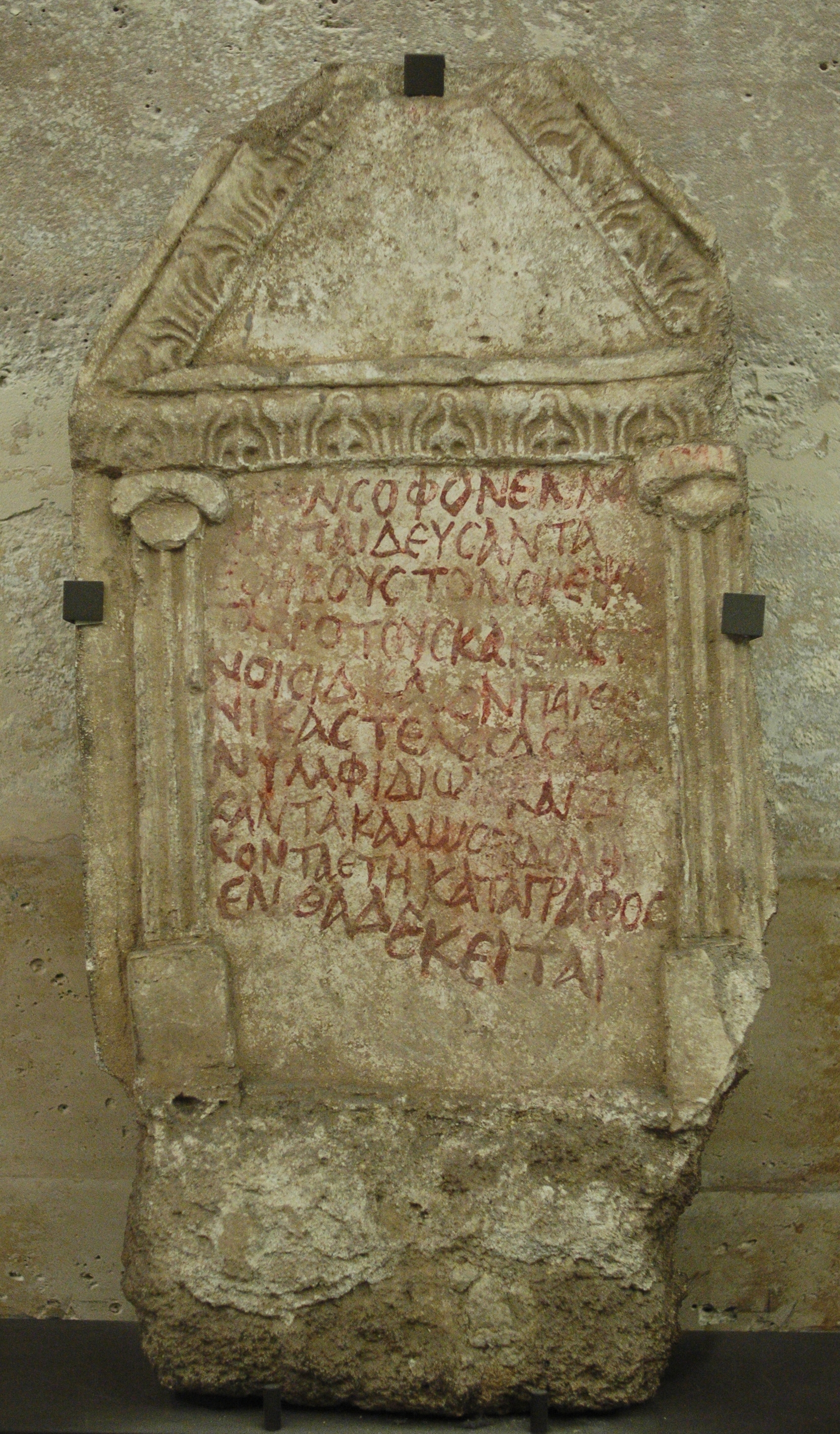 Funerary stele of a paedagogue, may come from Saida (now Sidon, Lebanon). Stuccoed and painted limestone, Imperial Roman era, 3rd–4th centuries CE (?). The inscription reads: ΤΟΝ ΣΟΦΟΝ ΕΝ ΝΟ(Μ)ΙΟ(ΙΣ) ΠΑΙΔΕΥΣΑΝΤΑ ΕΦΗΒΟΥΣ ΤΟΝ ΘΡΕΨΑΝΤΑ ΒΡΟΤΟΥΣ ΚΑΙ ΕΝ ΣΤΕΡΝΟΙΣΙ ΔΙΚΑΙΟΝ ΠΑΡΘΕΝΙΚΑΣ ΤΕΛΕΣΑΣ ΑΞΙΑ ΝΥΜΦΙΔΙΩΝ ΚΑΙ ΖΗΣΑΝΤΑ ΚΑΛΩΣ ΕΒΔΟΜΗΚΟΝΤΑ ΕΤΗ ΚΑΤΑΓΡΑΦΟΣ ΕΝΘΑΔΕ ΚΕΙΤΑΙ; "The wise, in laws raising the ephebes and making men of them; fair at heart, he raised the young girls to the dignity of married women; during 70 years he led a good life; now Katagraphos lies here".